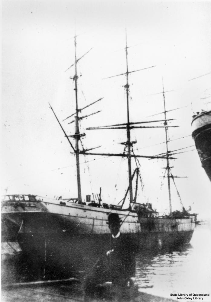 Charles Dickens (ship) Norwegian flag vessel built in 1856 by Smith & Rodger of Glasgow.She was firstly a steamship built for Bibby Line, and named Danube. In 1873 the Leyland Line took her over. Sold in 1874 to Robert Sloman of Hamburg, she was converted to a three masted ship rigged vessel named Charles Dickens. In 1897 she was sold to A. P. Ulriksen of Mandal Norway and was broken up in 1909. (Description supplied with photograph.).